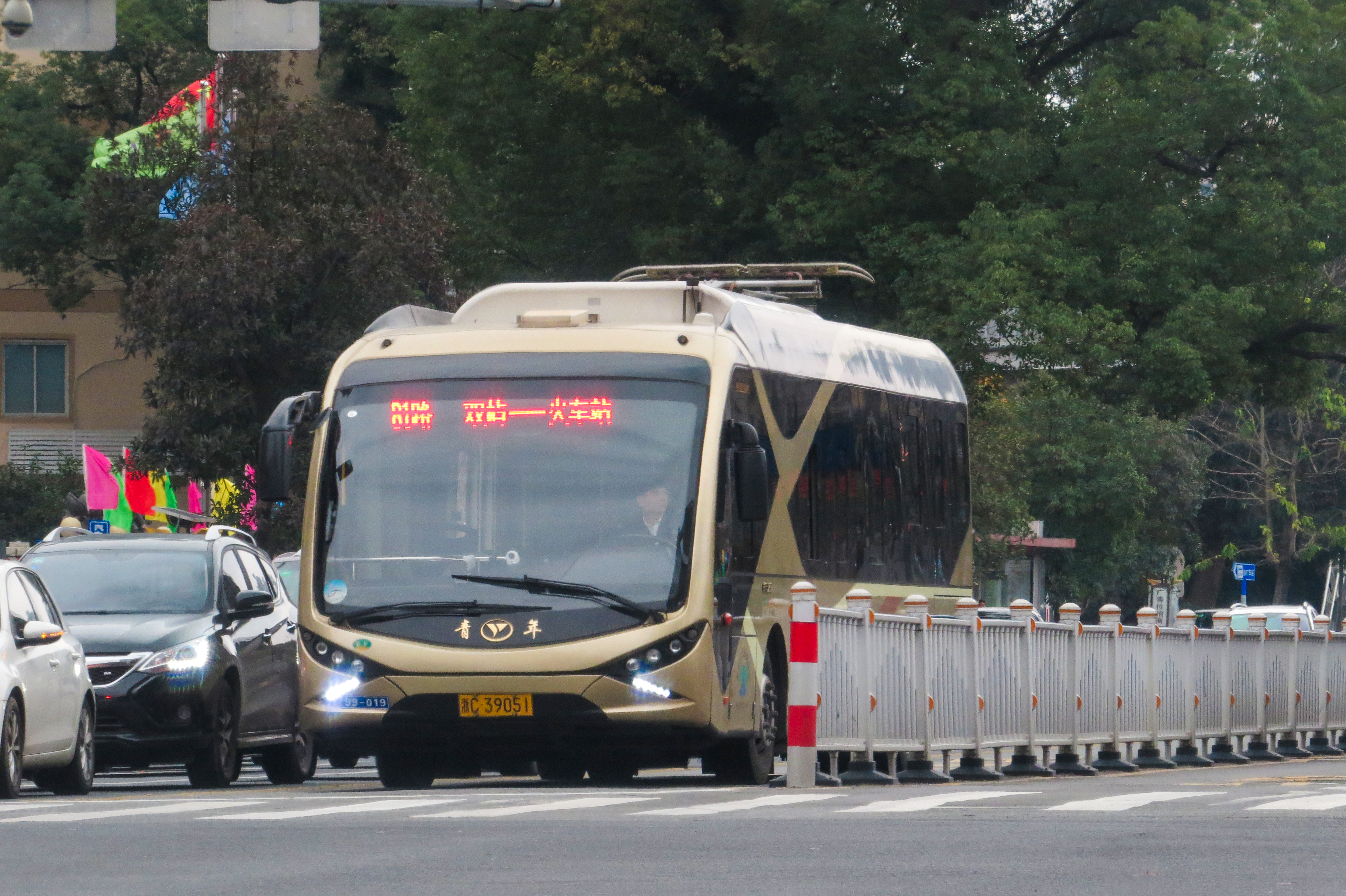 Small catfish with a pantograph. Wenzhou BRT uses the same bodywork as Beijing BRT3.